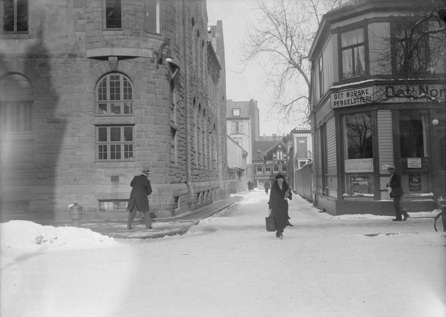 Apotekerveita, a narrow street (=veit) in Trondheim